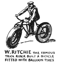 Cropped detail of cartoon advertisement from the series "Strange but True!". It was a series of fifty cartoon advertisements placed by Currys Ltd in the cycling press. It was compiled by the magazine correspondent "Wheeler", who invited readers to submit the cycling oddities that formed the series, addressed to Frank Gayton, a well-known Leicester artist. The N7 issue is one of the first mentions of the fat bike prototype: "W. Ritchie the famous trick rider built a bicycle fitted with balloon tyres". Date is before 1932. Place: Leicester, UK